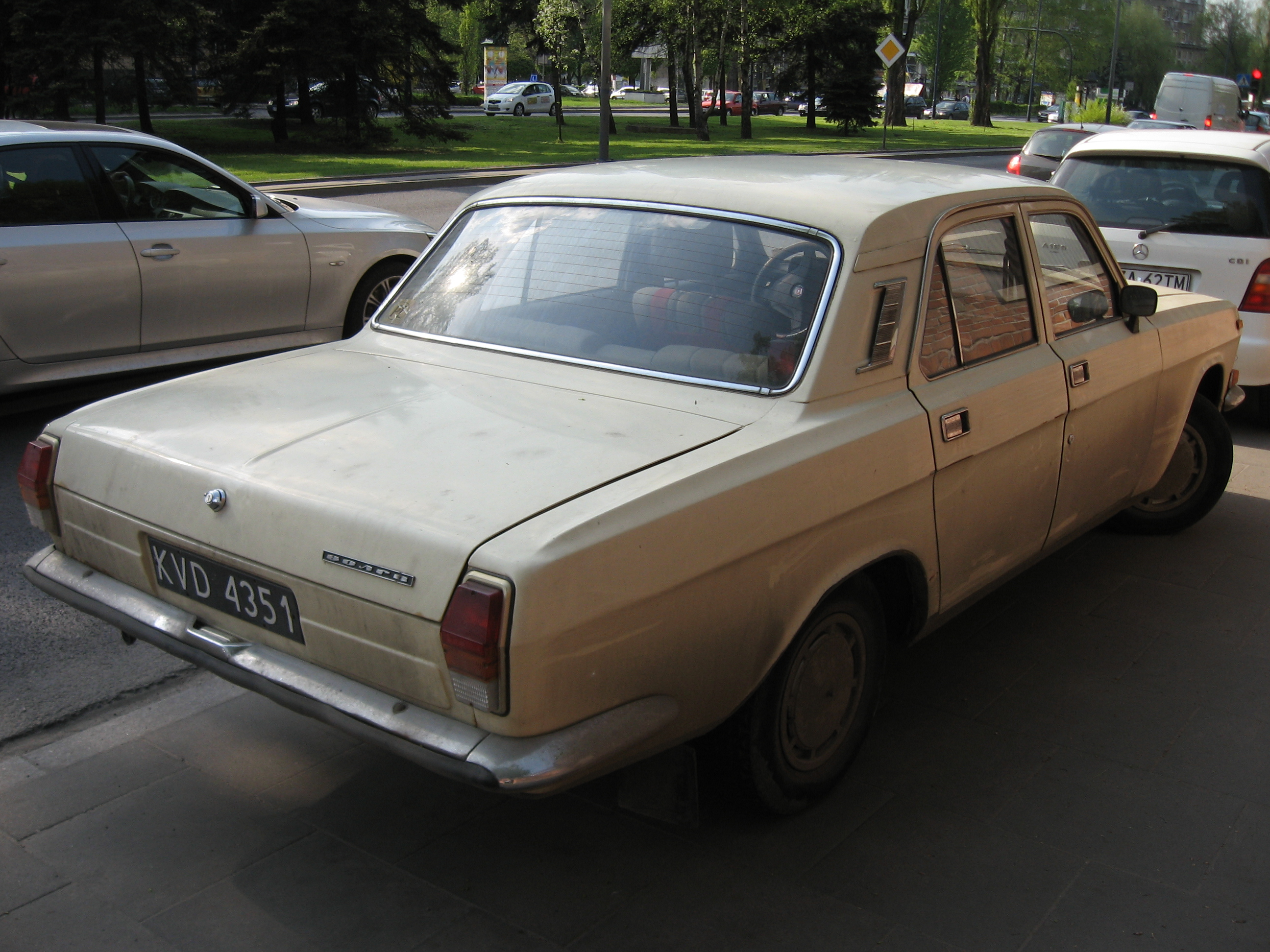 GAZ-24-10 Volga on Adama Mickiewicza avenue in Kraków.